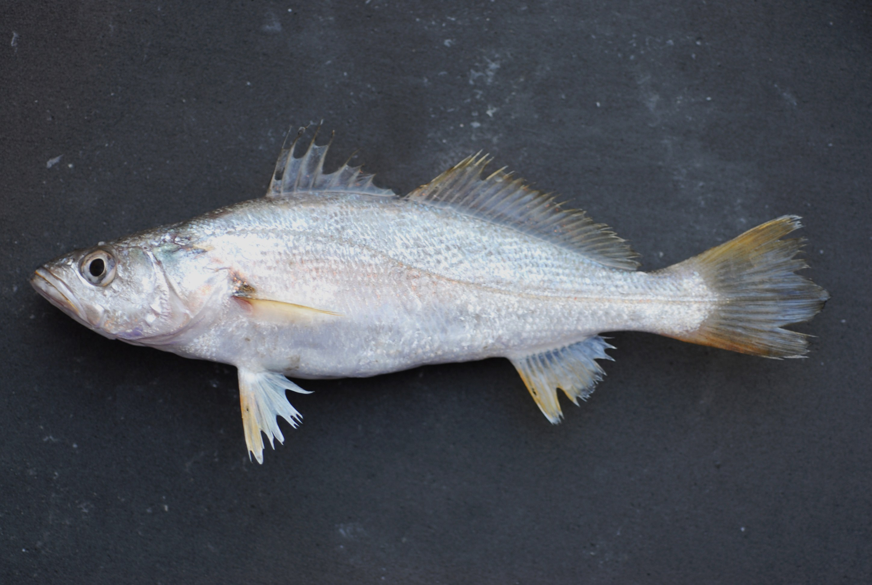 Cynoscion arenarius from the gulf of Mexico